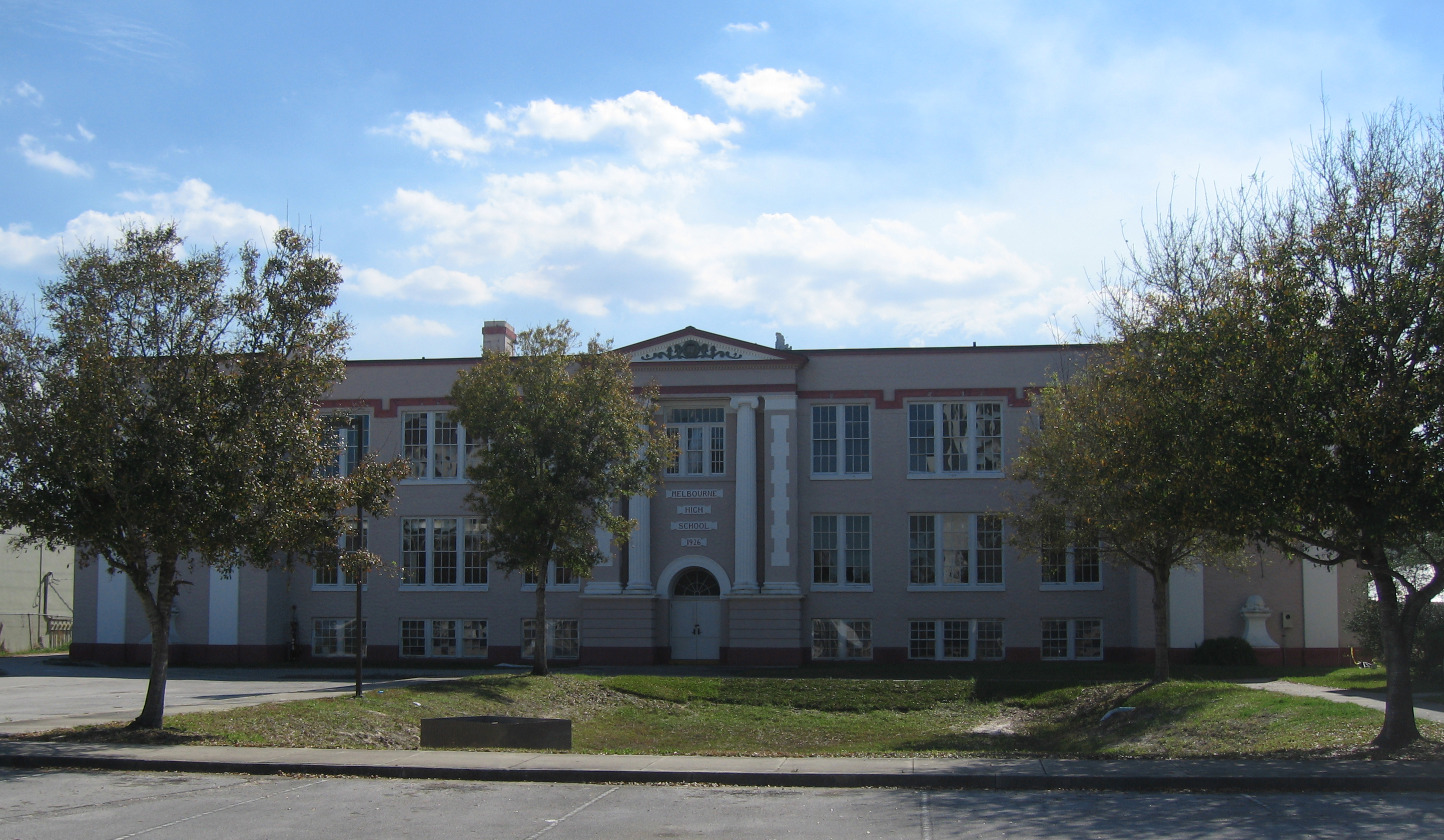 Front view of the Old Melbourne High School located on East New Haven Avenue, Melbourne, Florida.